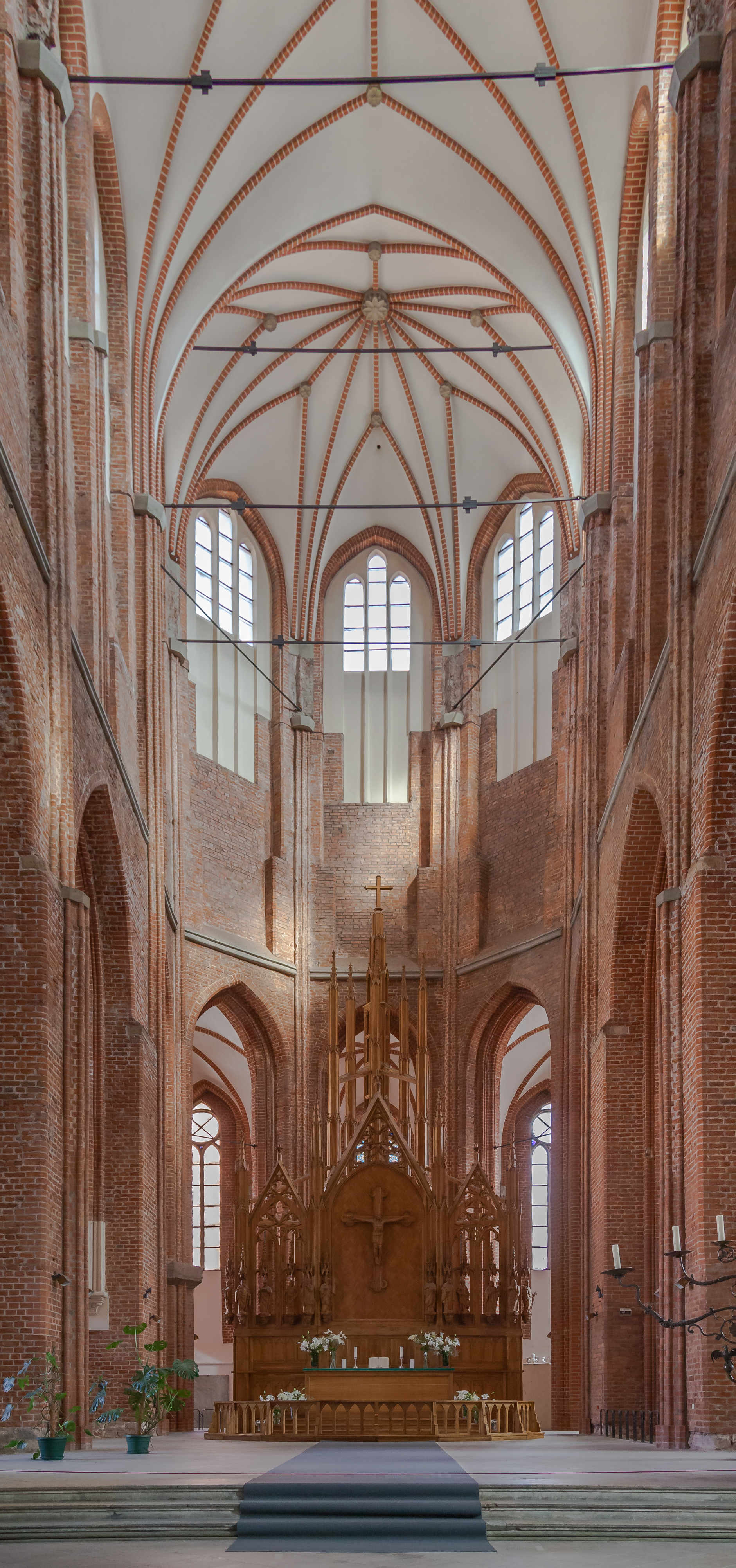 Church of Saint Peter, Riga, Latvia